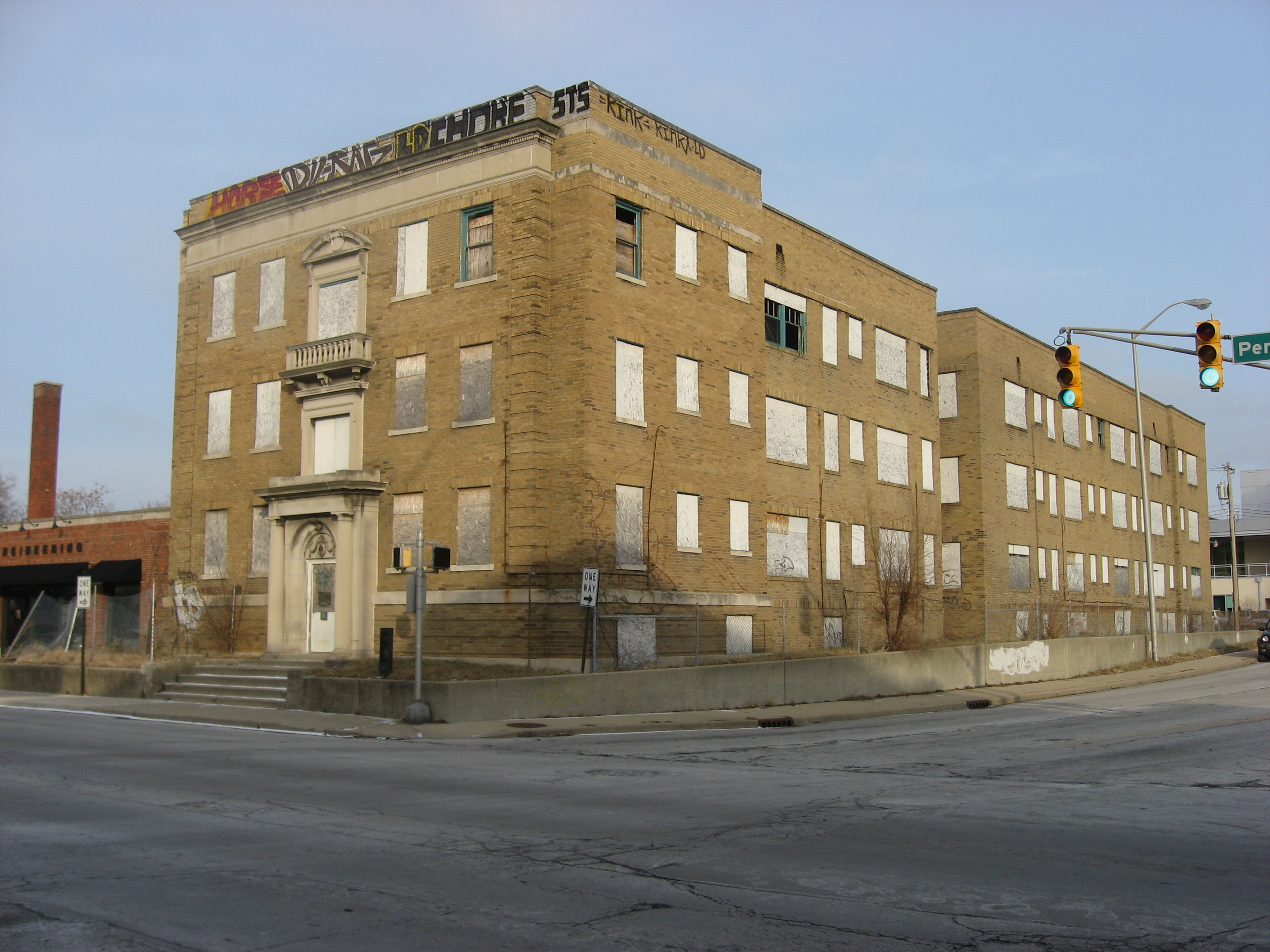 Front and southern side of The Chadwick, located at 1005 N. Pennsylvania Street in Indianapolis, Indiana, United States. Built in 1925, it was listed on the National Register of Historic Places as one of the "Apartments and Flats of Downtown Indianapolis Thematic Resources". It burned down about a year after this photo was taken, and it has since been removed from the Register.